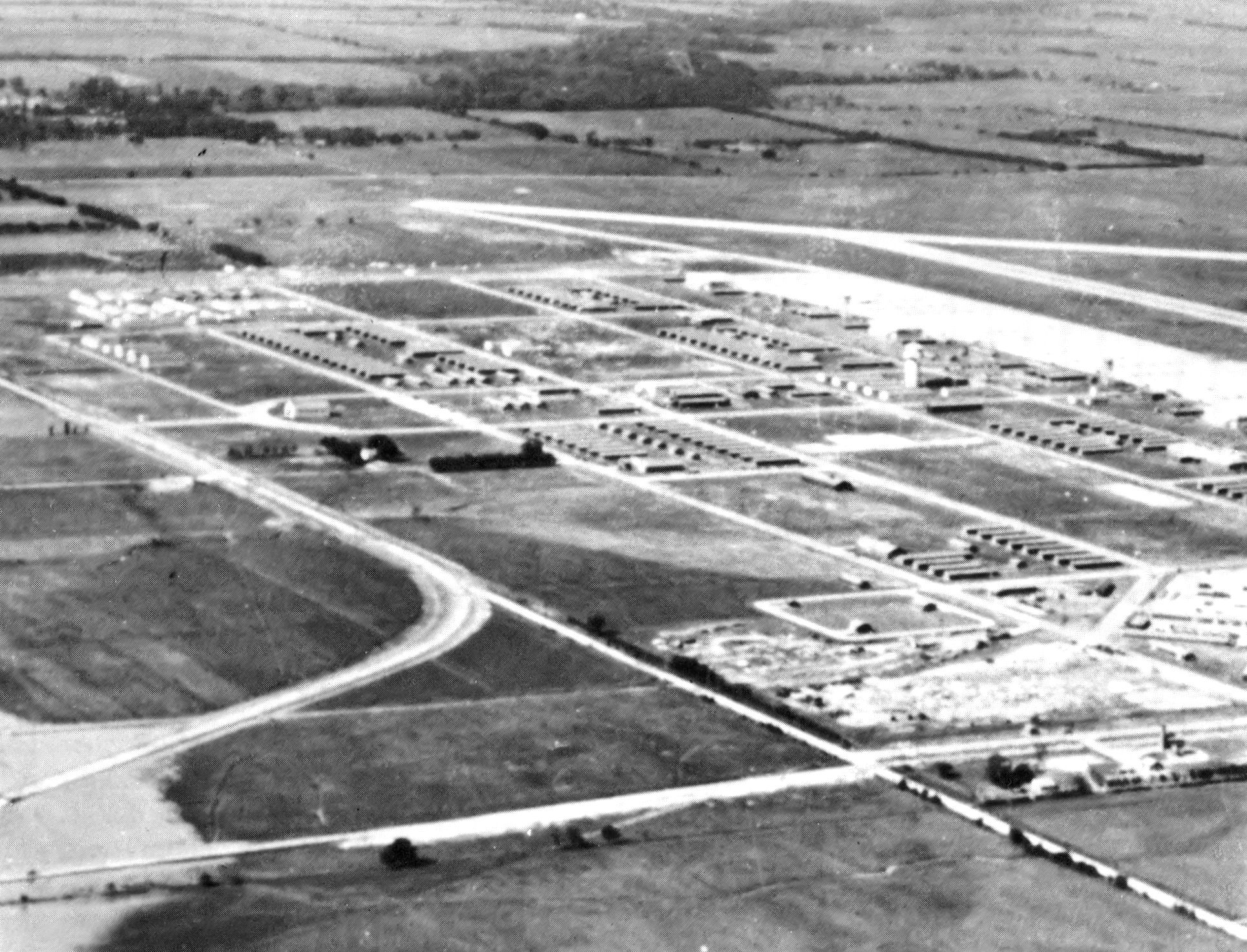 Coffeyville AAF Station - April 1945